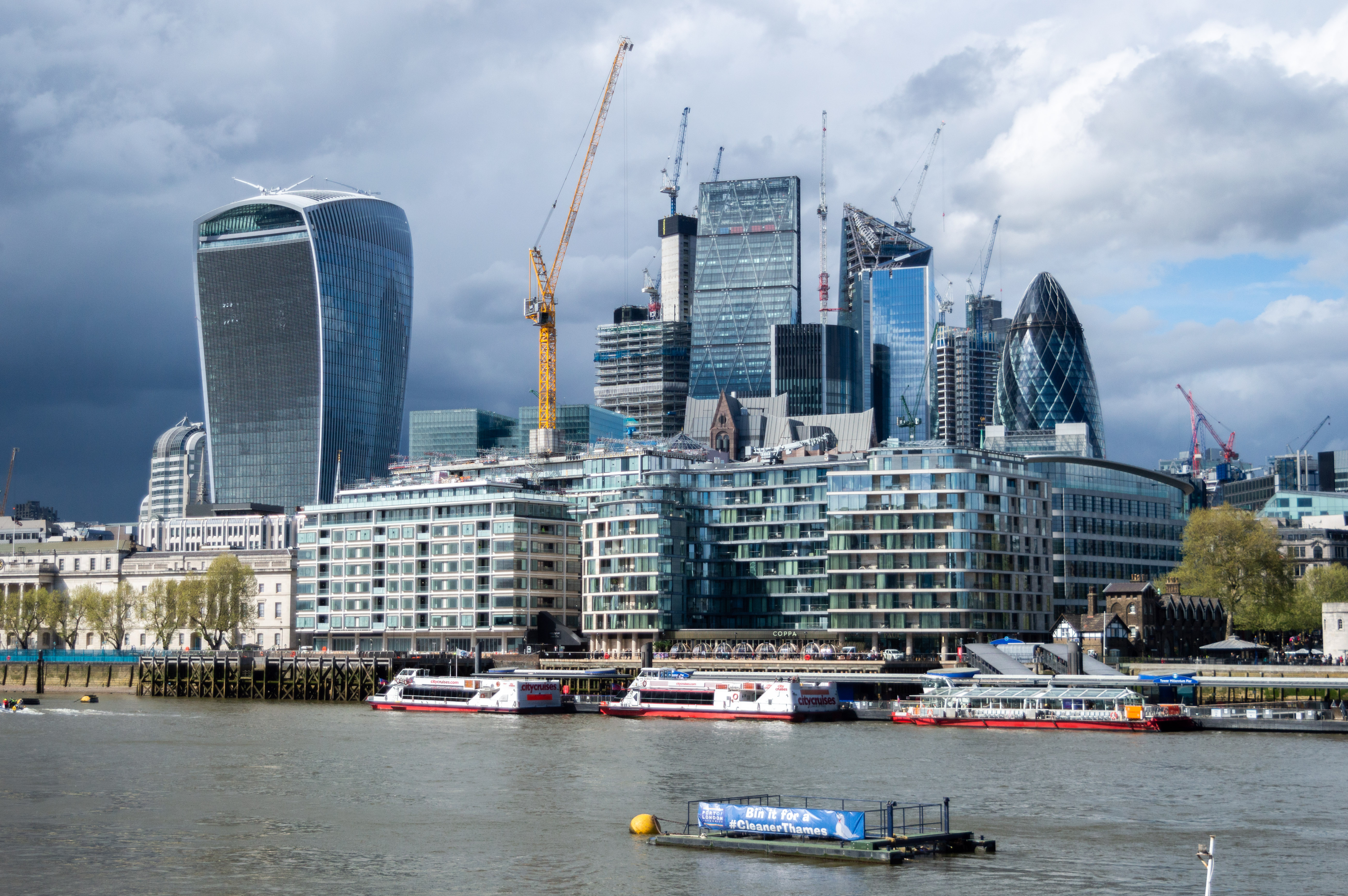 The City of London skyline, seen from the south bank of the River Thames. From left to right: Custom House (20 Lower Thames Street), Landmark Place, Cheval Three Quays, and Tower Place East. Behind those buildings, high rises including 20 Fenchurch Street, Plantation Place, 20 Gracechurch Street, 22 Bishopgate, 122 Leadenhall Street, Willis Building, The Scalpel (under construction), 30 St Mary Axe, and 100 Bishopgate (under construction) are visible.